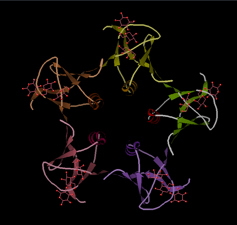 Crystal structure of a mutated Shiga-like Toxin STx1 B subunit from Escherichia coli complexed with receptor Gb3 analog, as seen from the membrane side. In the holotoxin, the A subunit (not shown here) would be located on the back side of the plane formed by the B subunits, while the sugar groups shown as rings ın the front correspond to the location of the receptor binding site on the B subunits.